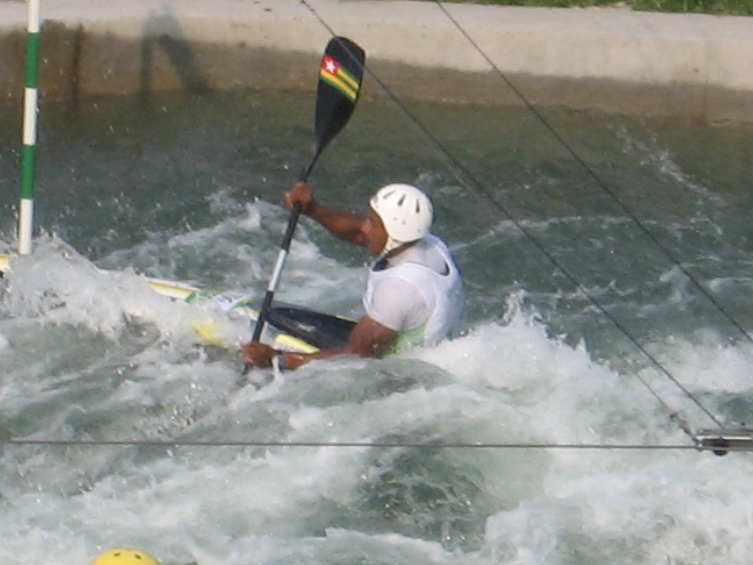 First Olympic Medalist from the nation of Togo. Photo of his run to get the medal in 2008 Olympics in Beijing.